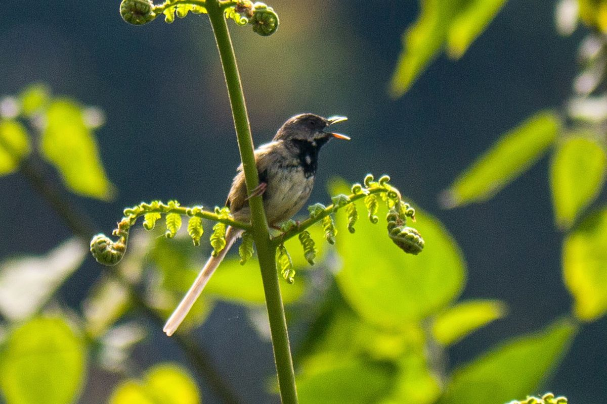 Black-throated Prinia (Prinia atrogularis), Mishmi Hills, Arunachal Pradesh, India